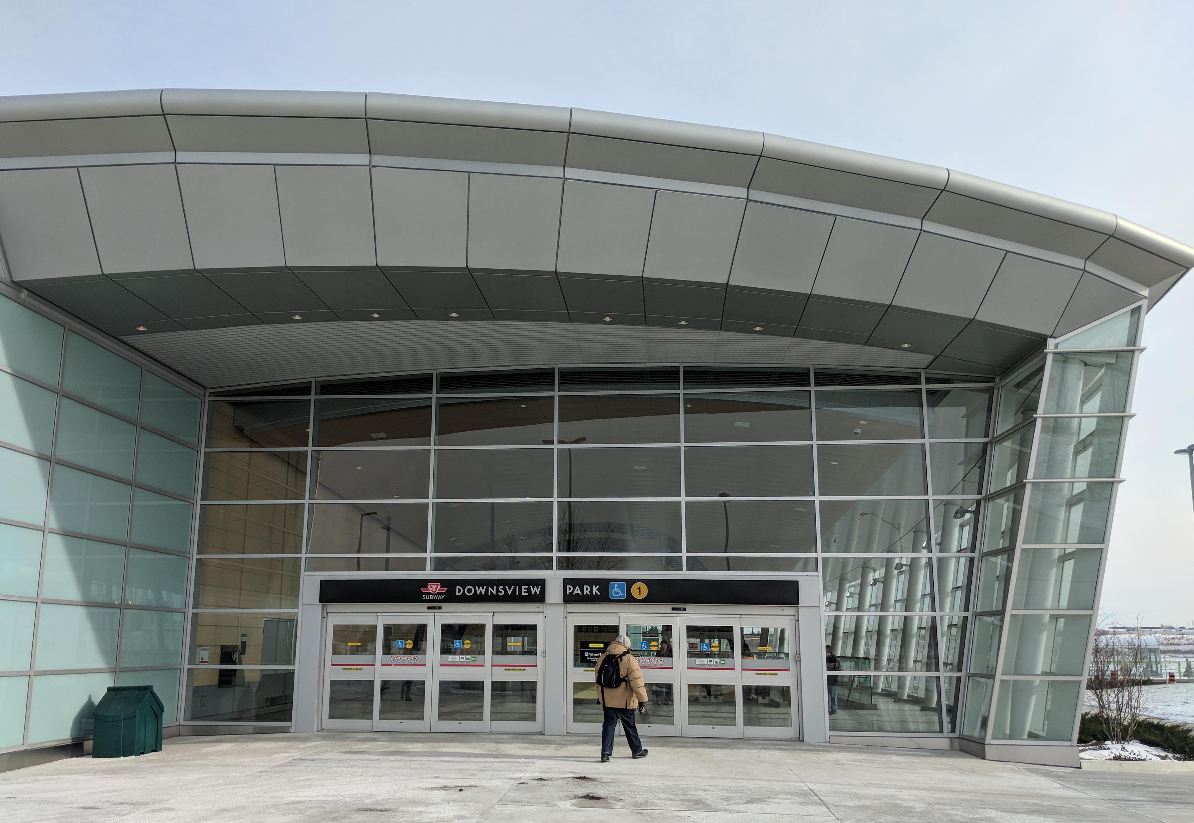 TTC Downsview Park Station